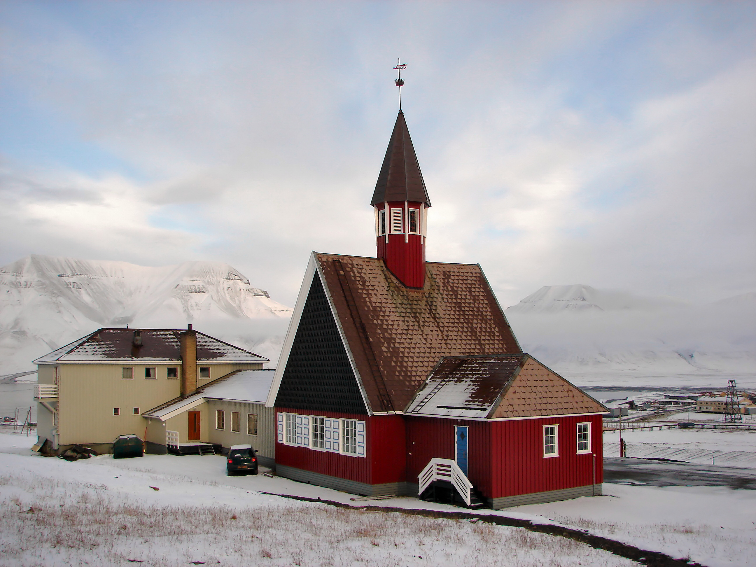 The church in Longyearbyen, Svalbard, Norway.